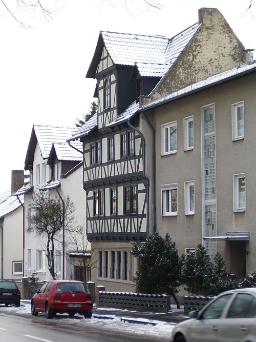 Description: Kassel, Harleshausen, Ahnatalstrasse 59, Fachwerkhaus mit massivem Erdgeschoss 2.H. 16.Jh., von NW Source: de-wiki / Keichwa Author: Keichwa Date: ca. 2003-12 Permission: GNU-FDL Other versions of this file: unknown Additional information: Previously uploaded to de-wiki by Keichwa on 2004-01-06 10:35:17, Bild:Kassel-harleshausen-fachwerkhaus-ahnatalstrasse-v-nw.jpg